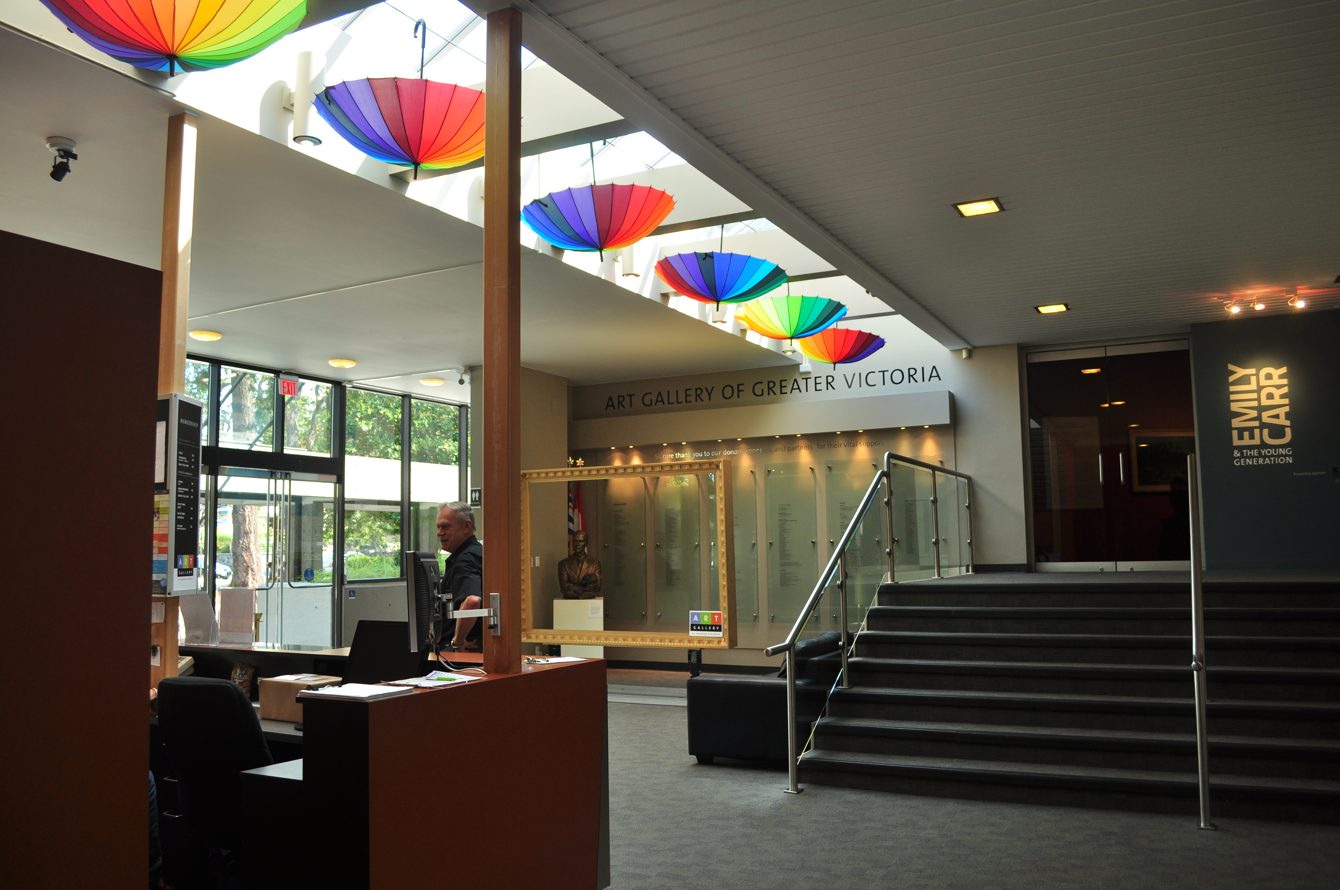 Interior, lobby, Art Gallery of Greater Victoria, Victoria, British Columbia.